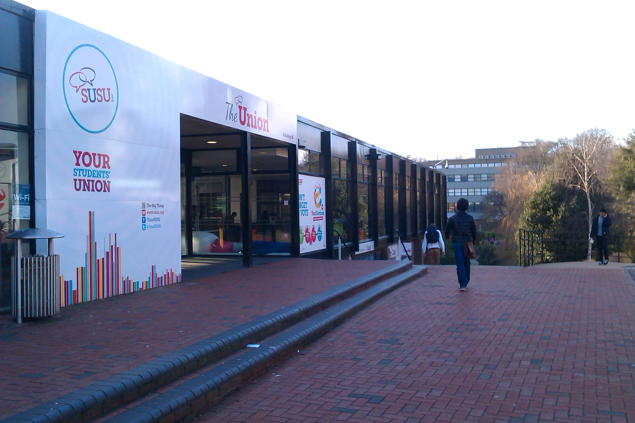 The Entrance to the University of Southampton Students' Union (SUSU) main building at the University of Southampton's Highfield Campus. Entry onto Level 4 from the Red Brick plaza showing SUSU branding from c.2011